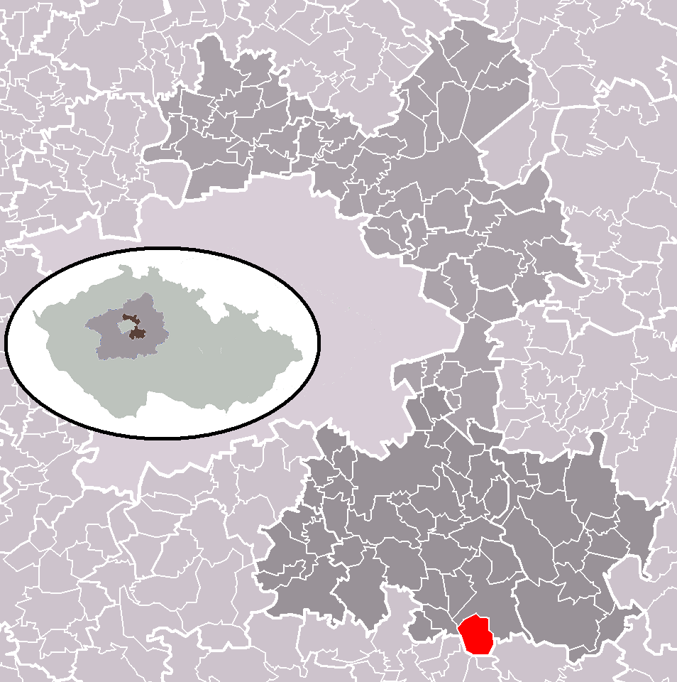 Location of Kaliště municipality within Prague-East District and administrative area of Říčany as a Municipality with Extended Competence.